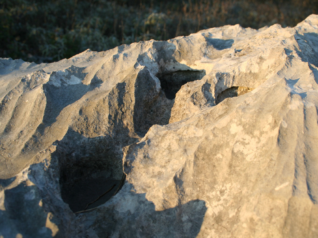 Corrosion step, a typical karst surface form; picture taken in slovenian Kras region.